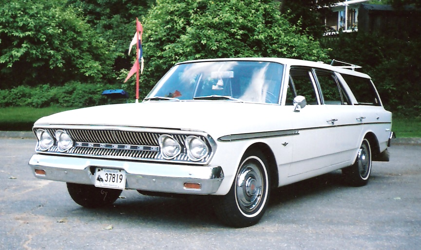 1963 Rambler Classic 660 Station Wagon I photographed on June 21, 2008 at the 5th annual International Station Wagon Club convention in Sturbridge, Massachusetts.